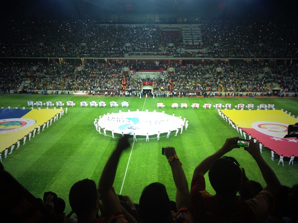 Maç başlamadan önce Süper Kupa 2013